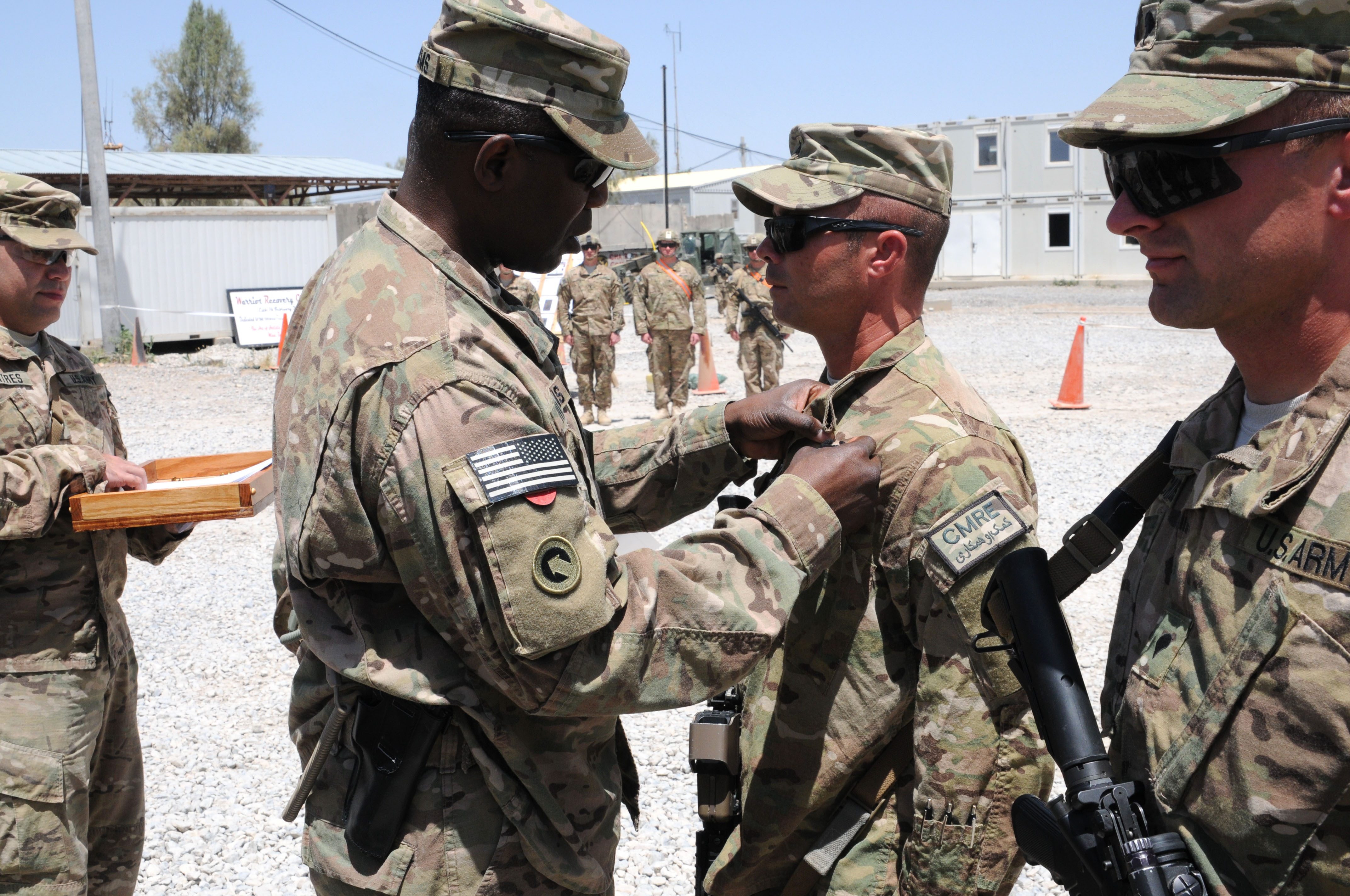 Maj. Gen. Darrell K. Williams, commander, 1st Theater Sustainment Command, presents the Combat Action Badge to Tebbetts, Mo. native, Sgt. Chad Sheehan, a heavy equipment operator for the Fort Leonard Wood, Mo.-based 955th Engineer Company, attached to the Little Rock, Ark.-based 489th Engineer Battalion, during an award ceremony April 26 at Kandahar Airfield, Afghanistan. Troops with the 955th perform deconstruction in Afghanistan as part of the Fort Bragg, N.C.-based 82nd Sustainment Brigade-U.S. Central Command Materiel Recovery Element. (U.S. Army photo by Sgt. 1st Class Jon Cupp, 82nd SB-CMRE Public Affairs)